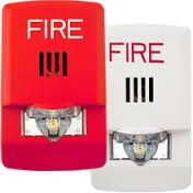 image of the Wheelock Exceder LED horn/strobe